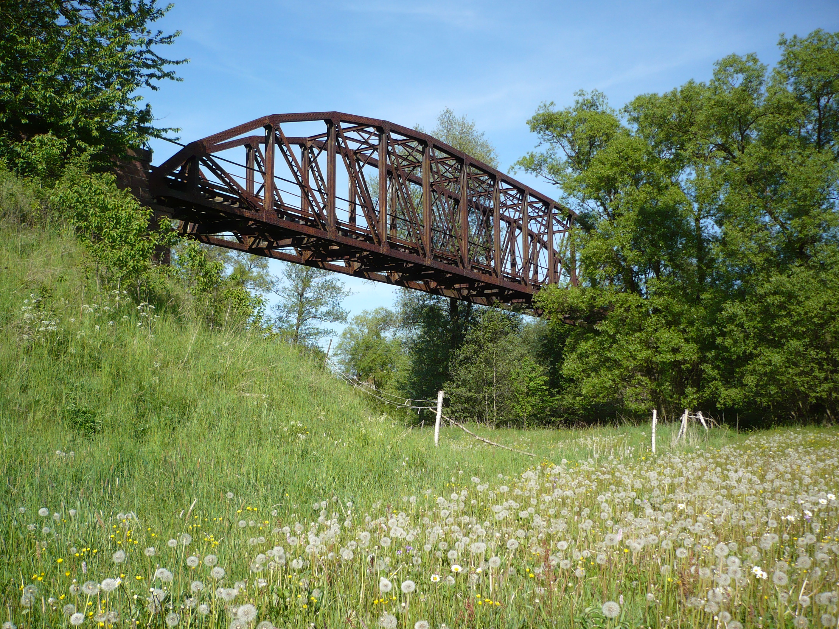 Abandoned railway bridge over Ścinawka (Stěnava, Steine) in Tłumaczów (Tuntschendorf), Silesia, Poland